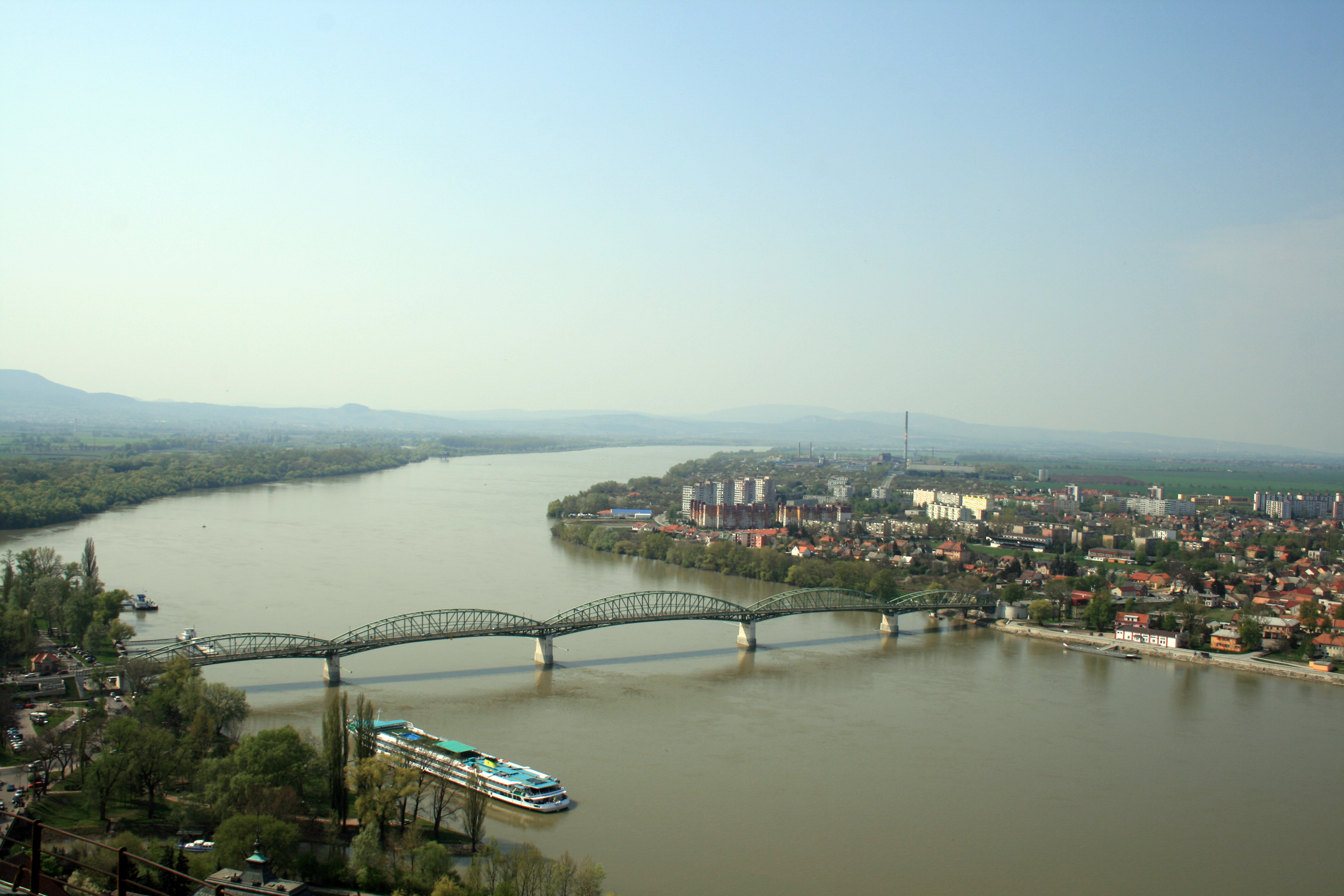 View from tower of Esztergom Basilica, Esztergom on Štúrovo, in Slovakia. However the picture is taken from the hungarian side.